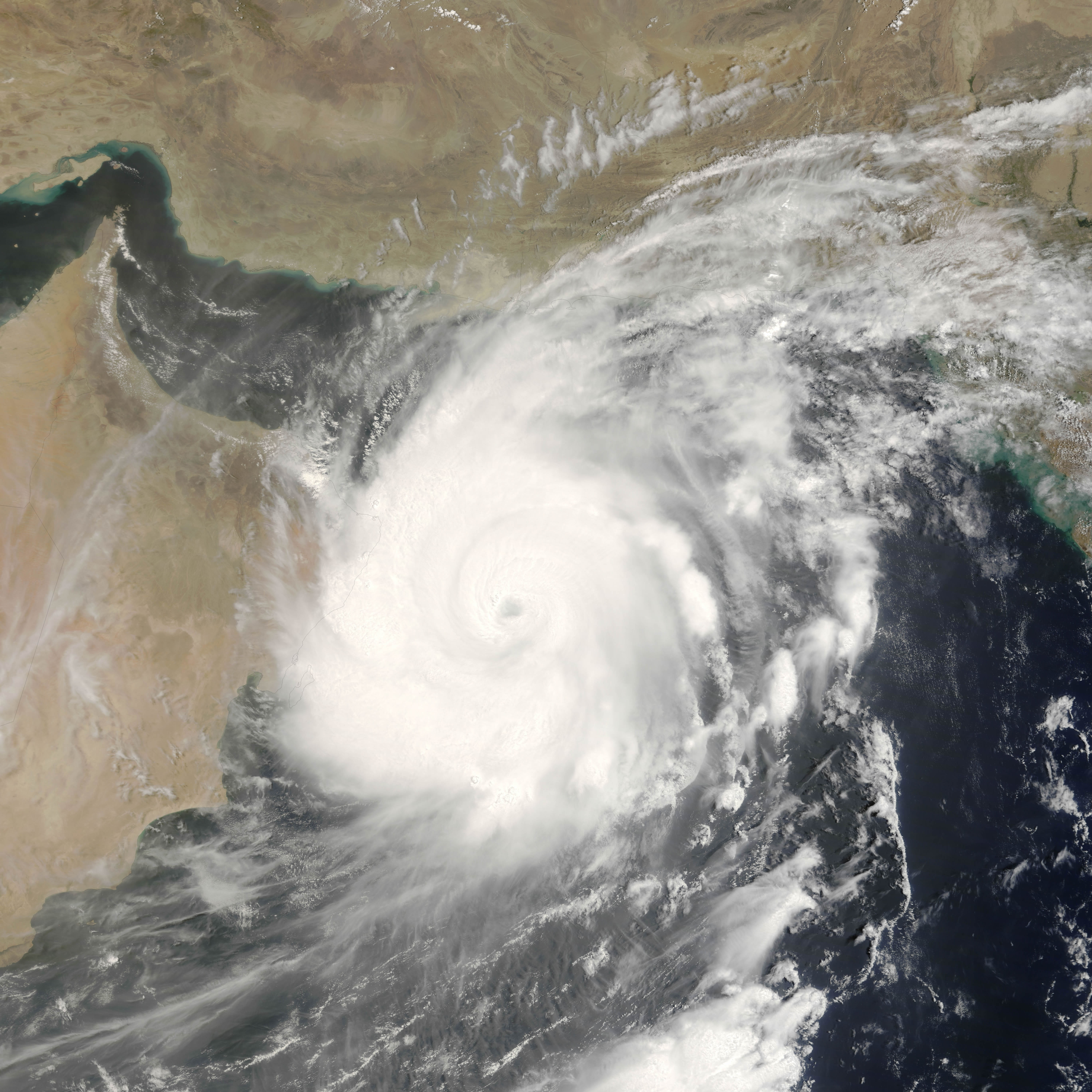 At 9:35 a.m. local time (06:35 UTC) on June 5, 2007, when the Moderate Resolution Imaging Spectroradiometer (MODIS) on NASA’s Terra satellite captured this image, Tropical Cyclone Gonu was approaching the northeastern shore of Oman. At this time, the powerful storm had reached a dangerous Category 4 status. Sustained winds were measured at 250 kilometers per hour (155 miles per hour) according to the University of Hawaii’s Tropical Storm Information Center, at the time of this MODIS image. The storm has the hallmark tightly wound arms that spiral around a well-defined, circular eye. The eye is surrounded by a wall of towering clouds that cast shadows on the surrounding clouds. Called hot towers, these clouds are a sign of the powerful uplift that feeds the storm. The symmetrical spirals, distinct eye, and towering clouds are all features regularly seen in satellite images of other particularly powerful cyclones, which are also known as typhoons or hurricanes when they form in other parts of the world. Cropped from original image to 6000x6000.